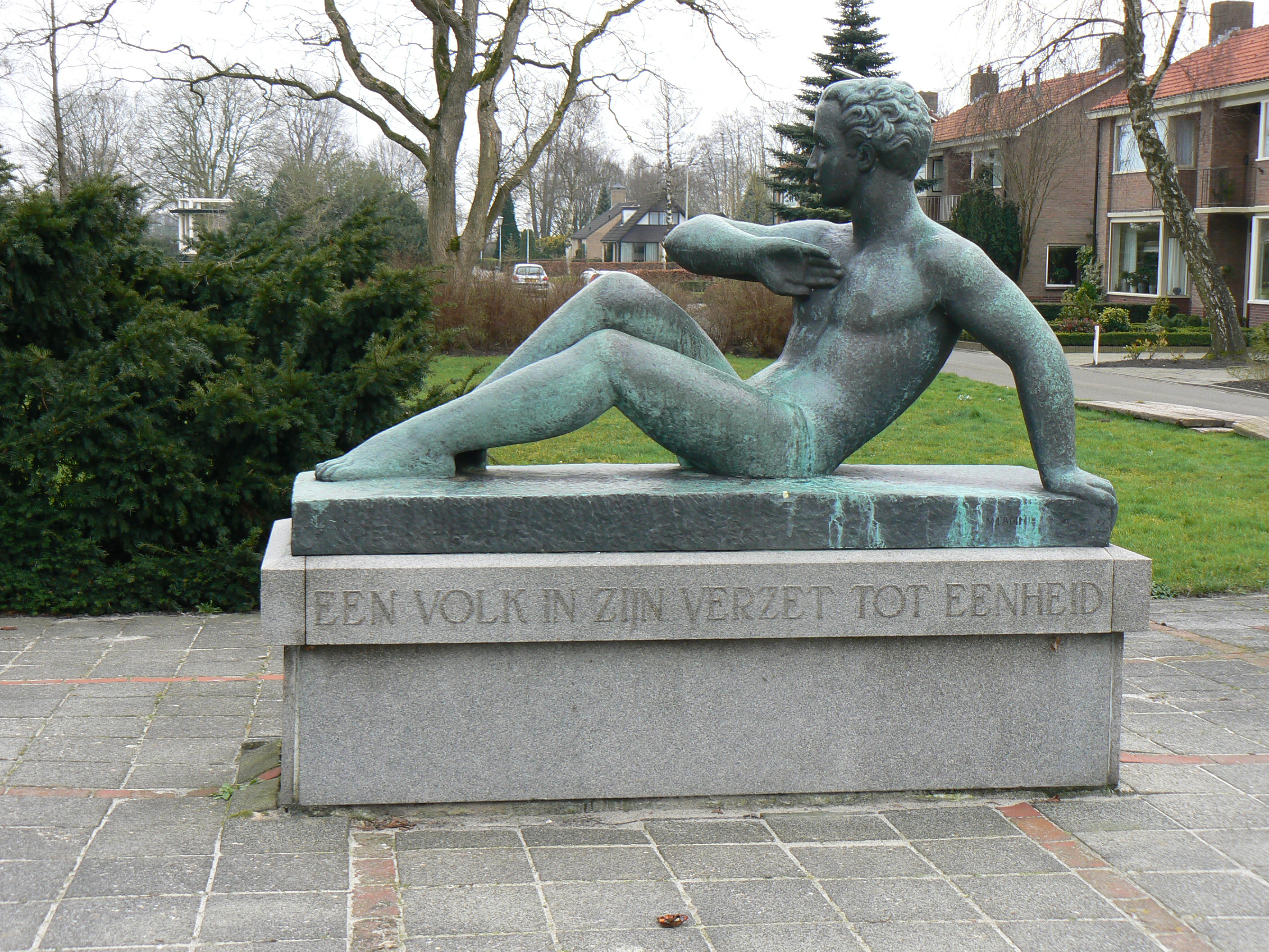 memorial/sculpture 1940-1945 (1948) by Wladimir de Vries in Wildervank/The Netherlands